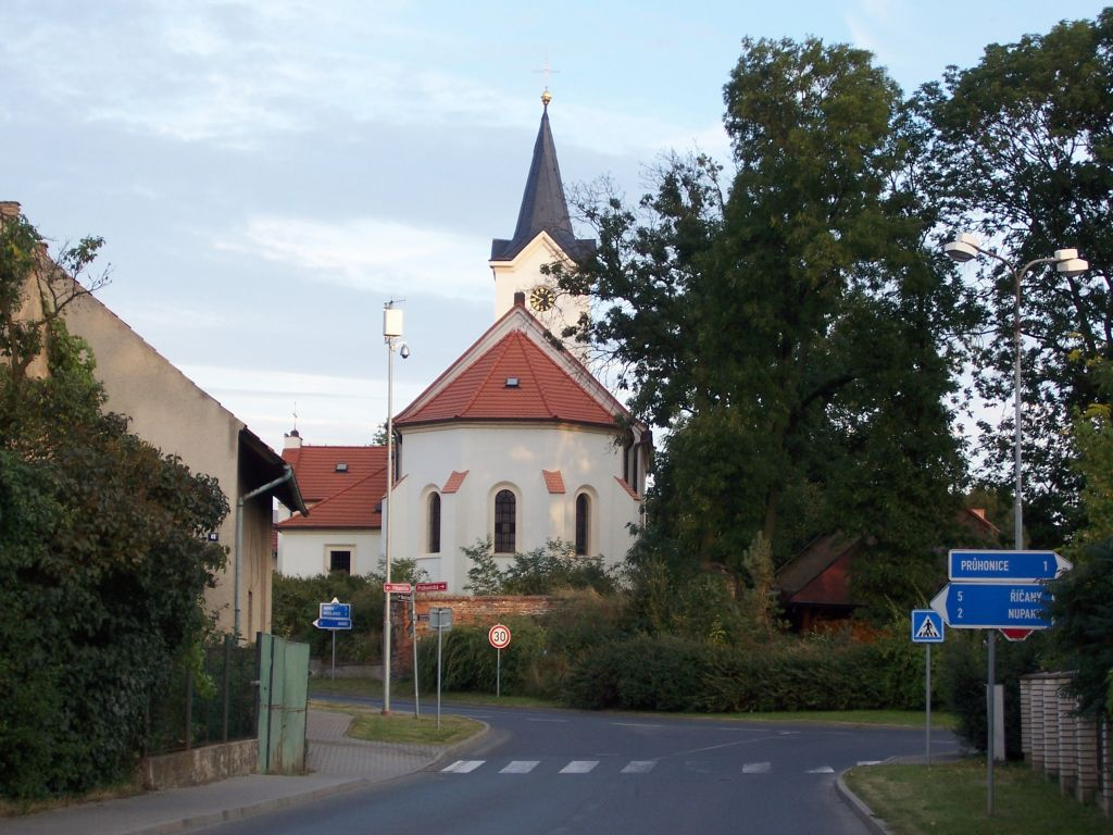 Čestlice, church, Pitkovická Street